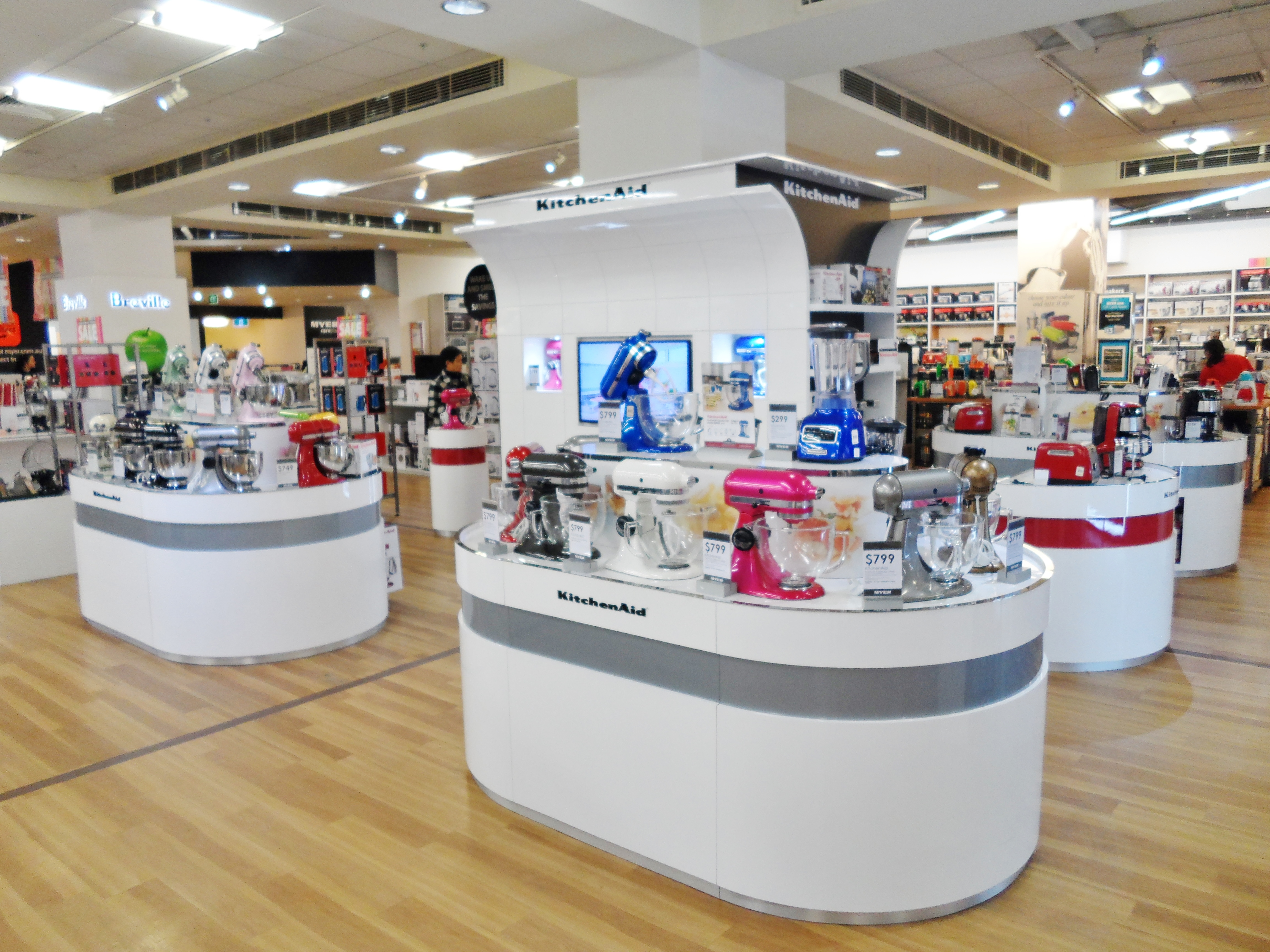 Stand mixers by American home appliance brand KitchenAid at Sydney City branch of Australian department store MYER in 2013.